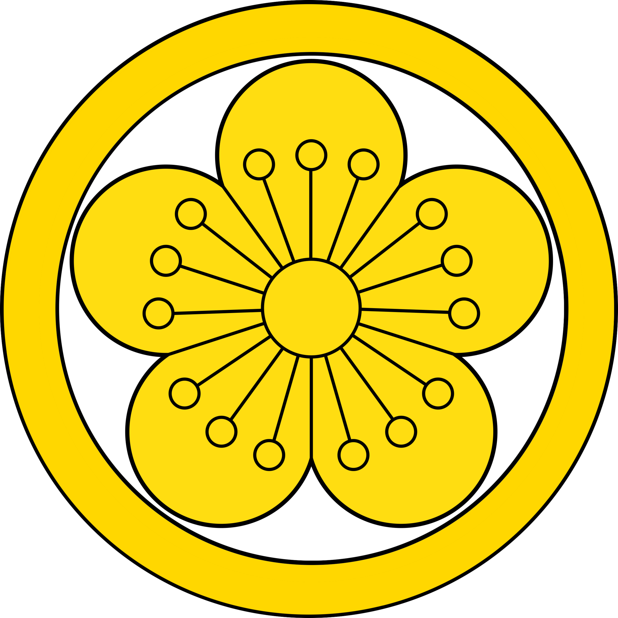 Unhyeongung Ihwamun